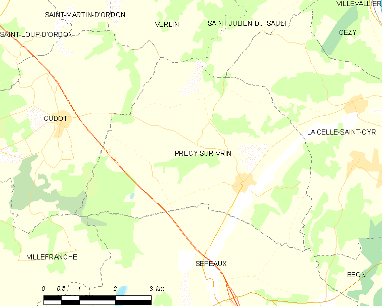 Map of French municipality Précy-sur-Vrin